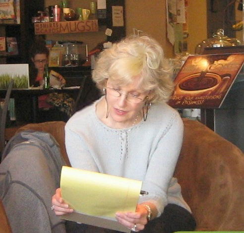 Diane Lockward reading a poem